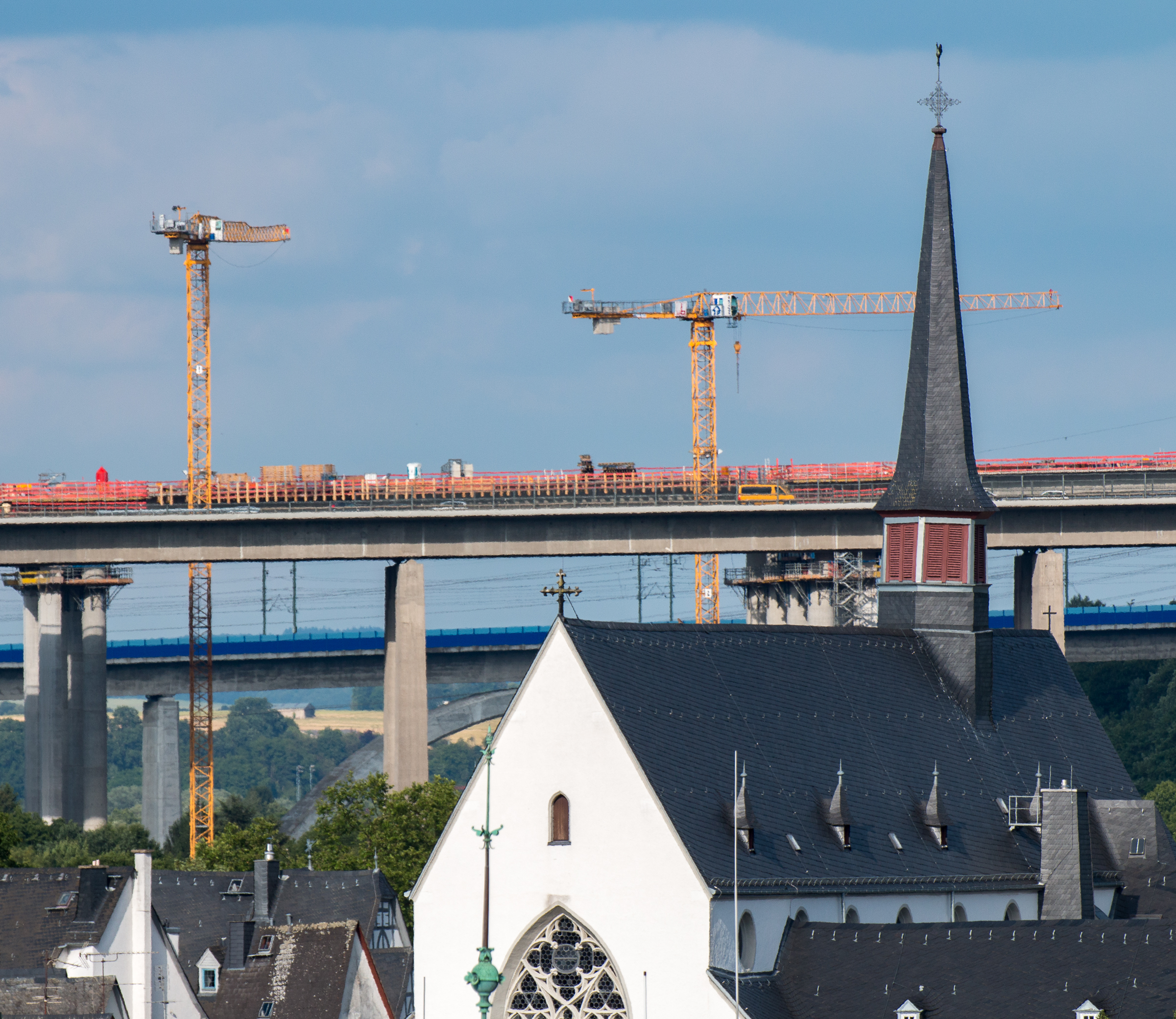 The city church St. Sebastian in Limburg